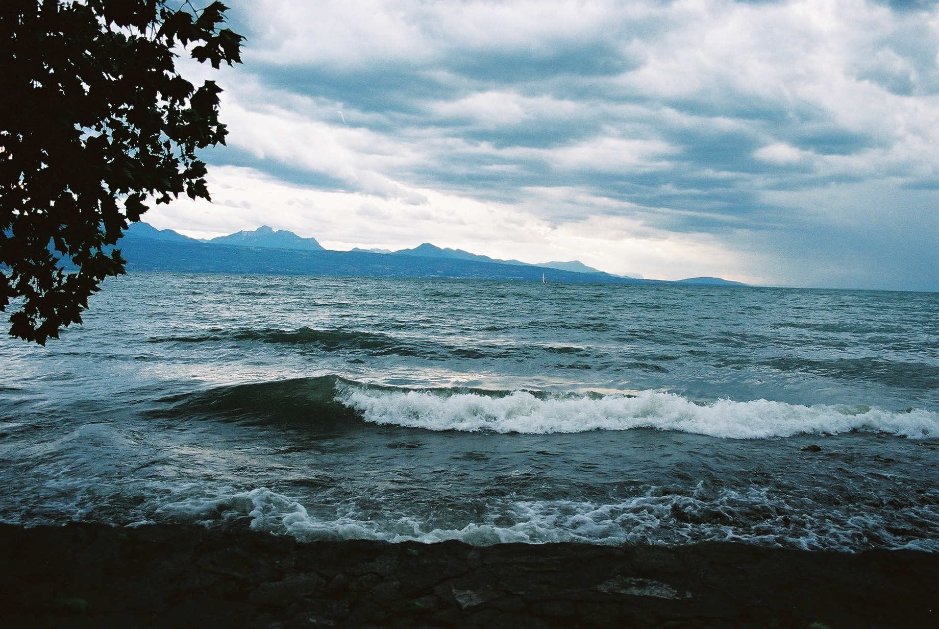 Waves on Geneva Lake